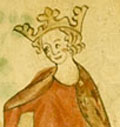 John of England